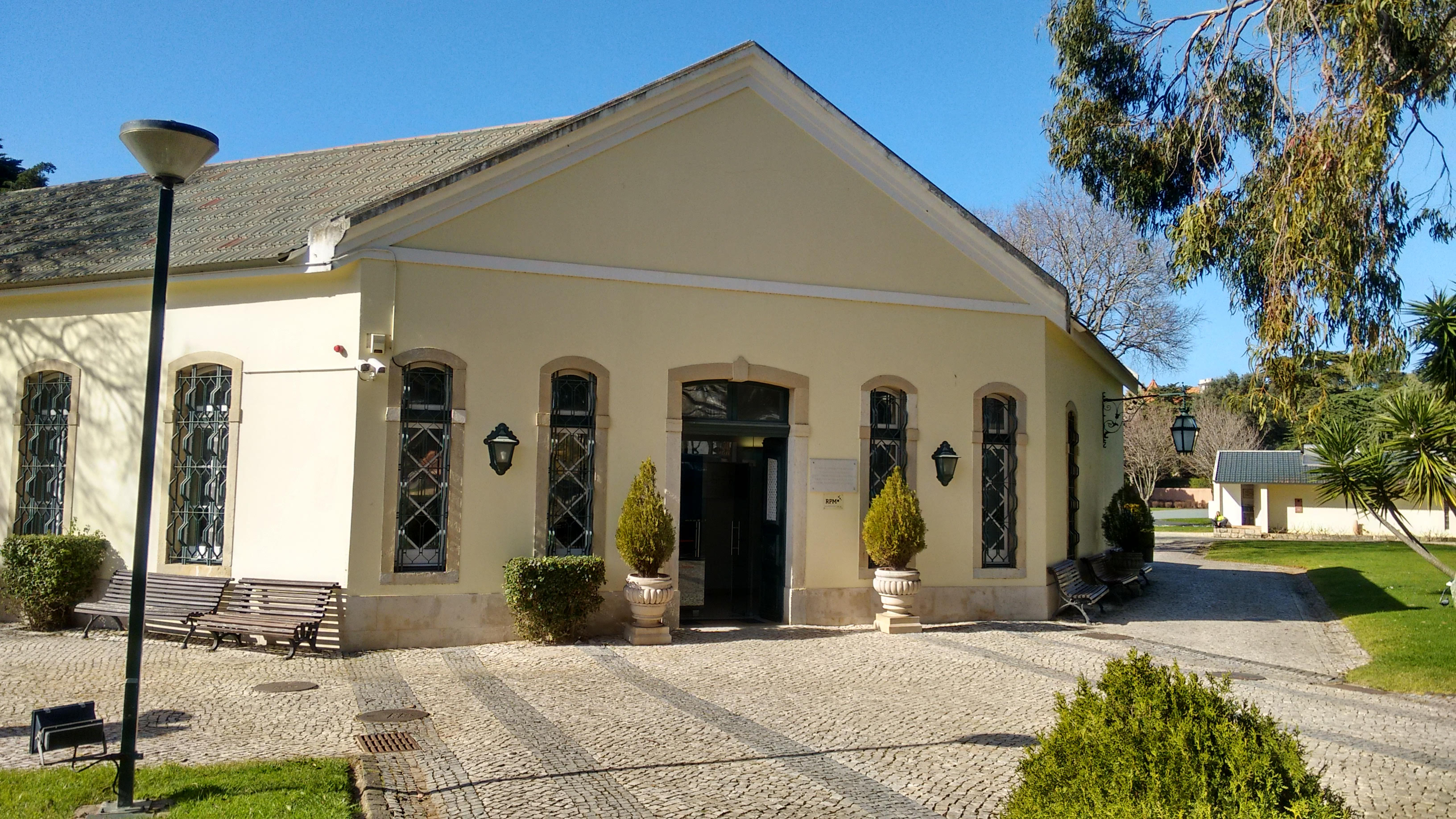 Entrance to the King Carlos Museum of the Sea in Cascais, Portugal